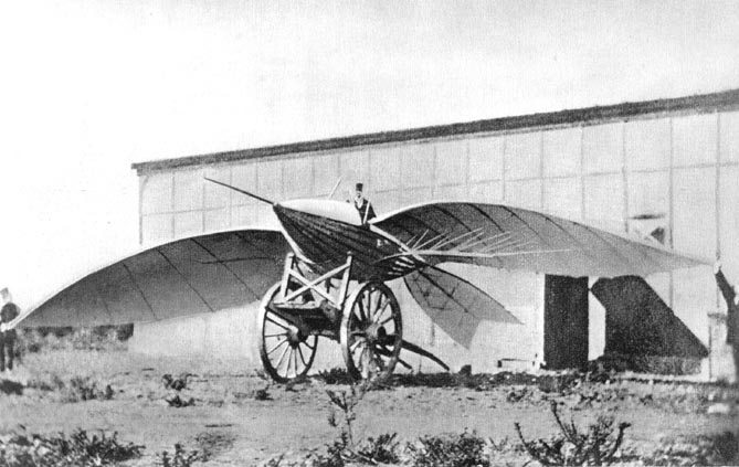 Le Bris' flying machine, photographed by Gaspard-Félix Tournachon aka Nadar in 1868. Nadar (1820–1910) Alternative namesLegal name: Gaspard-Félix Tournachon Pseudonym: NadarDescription French photographer, caricaturist, writer and balloonist Date of birth/death5 April 182021 March 1910Location of birth/deathParisParisWork period1854–1910Work locationParisAuthority controlVIAF: 84808952 | LCCN: n50014563 | GND: 118586181 | SELIBR: 195792 | BNF: cb119173388 | ULAN: 500005199 | WorldCat